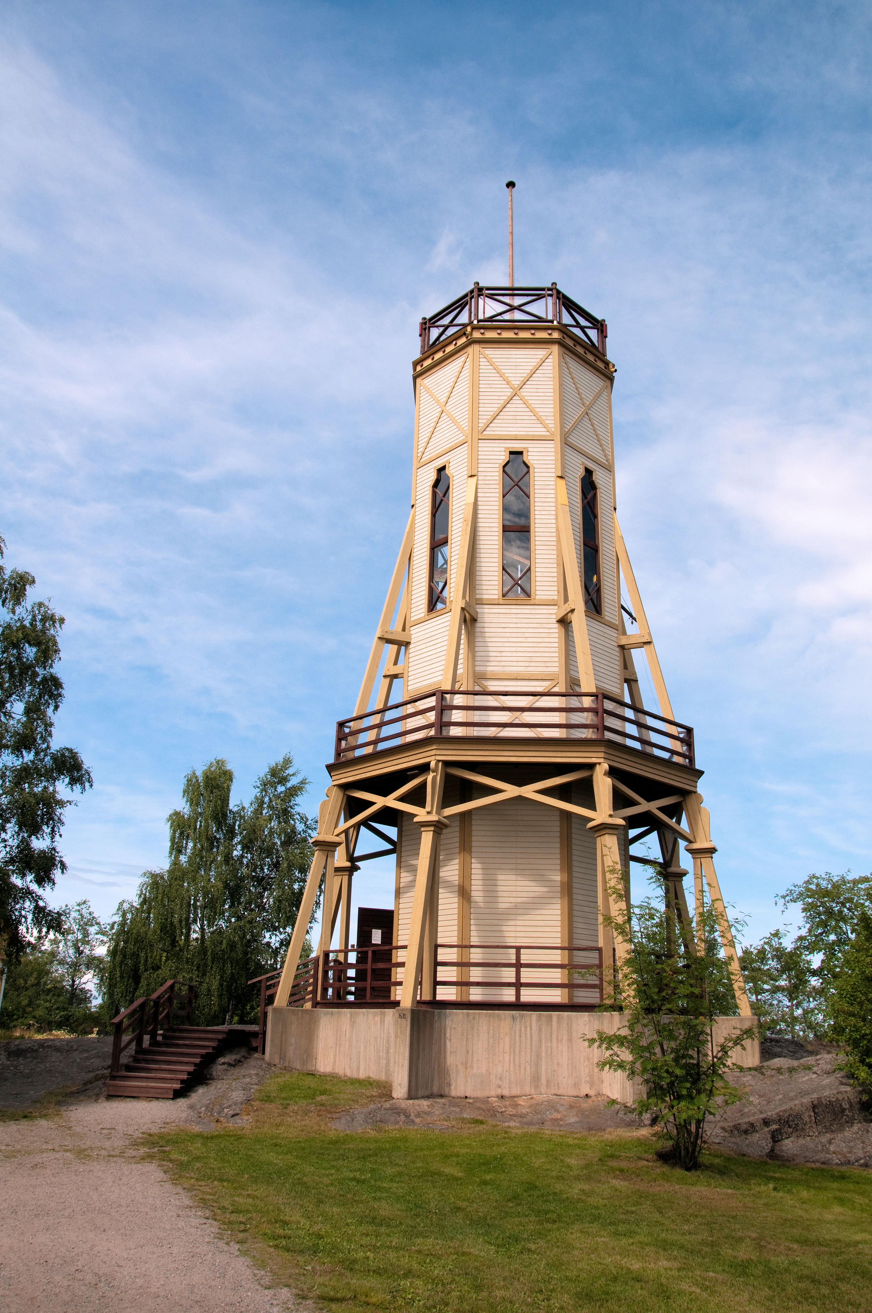 Lookout tower in Rauma, Finland